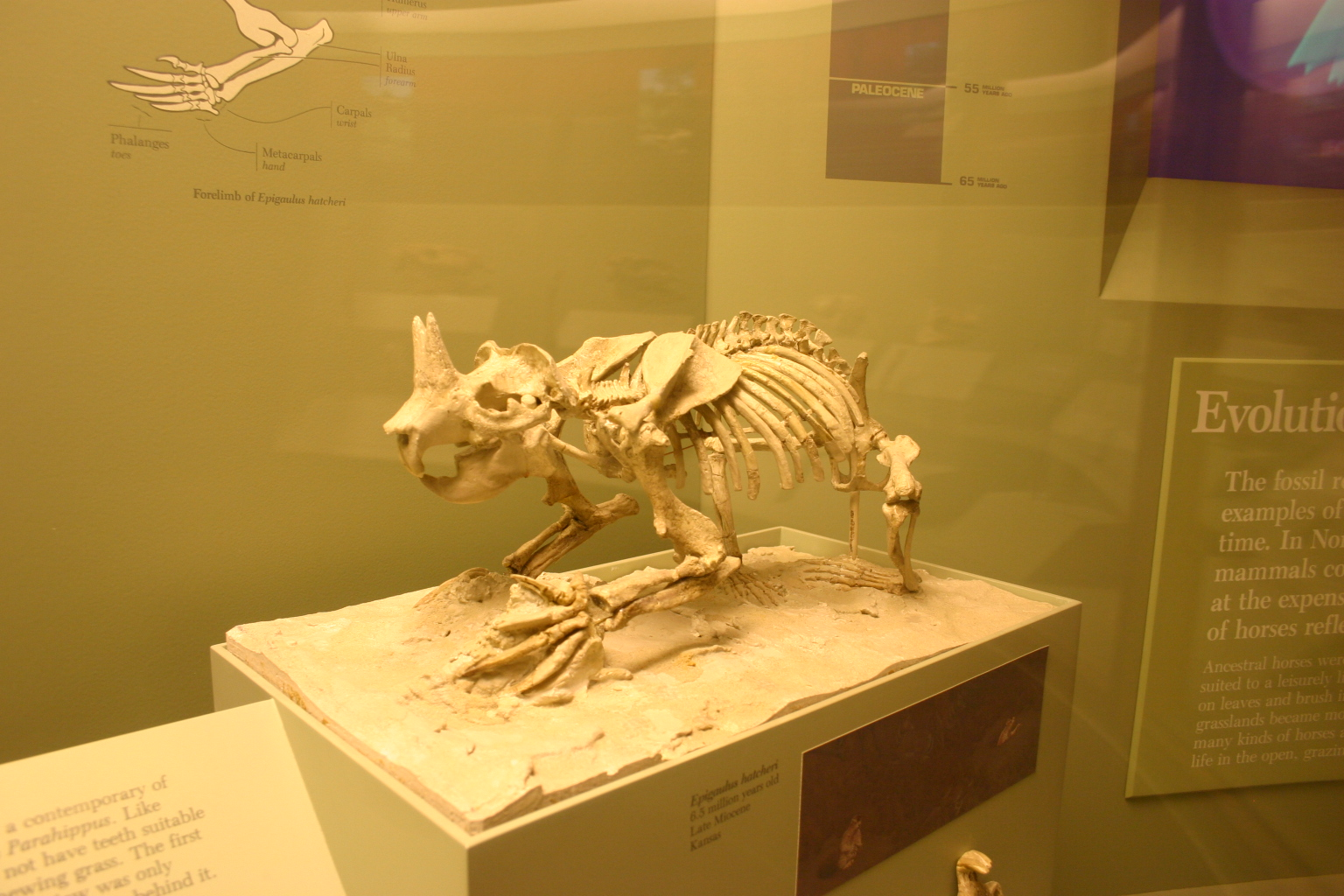 Ceratogaulus hatcheri exhibited in Smithsonian National Museum of Natural History: Hall of Fossils